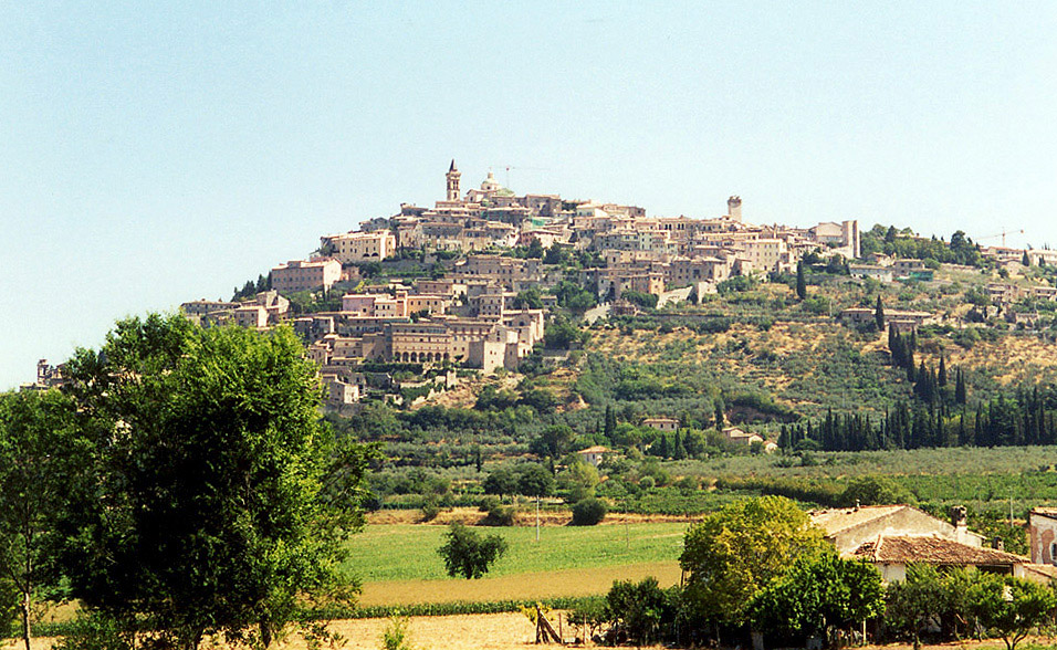 Trevi, Umbria, Italy, 2001.